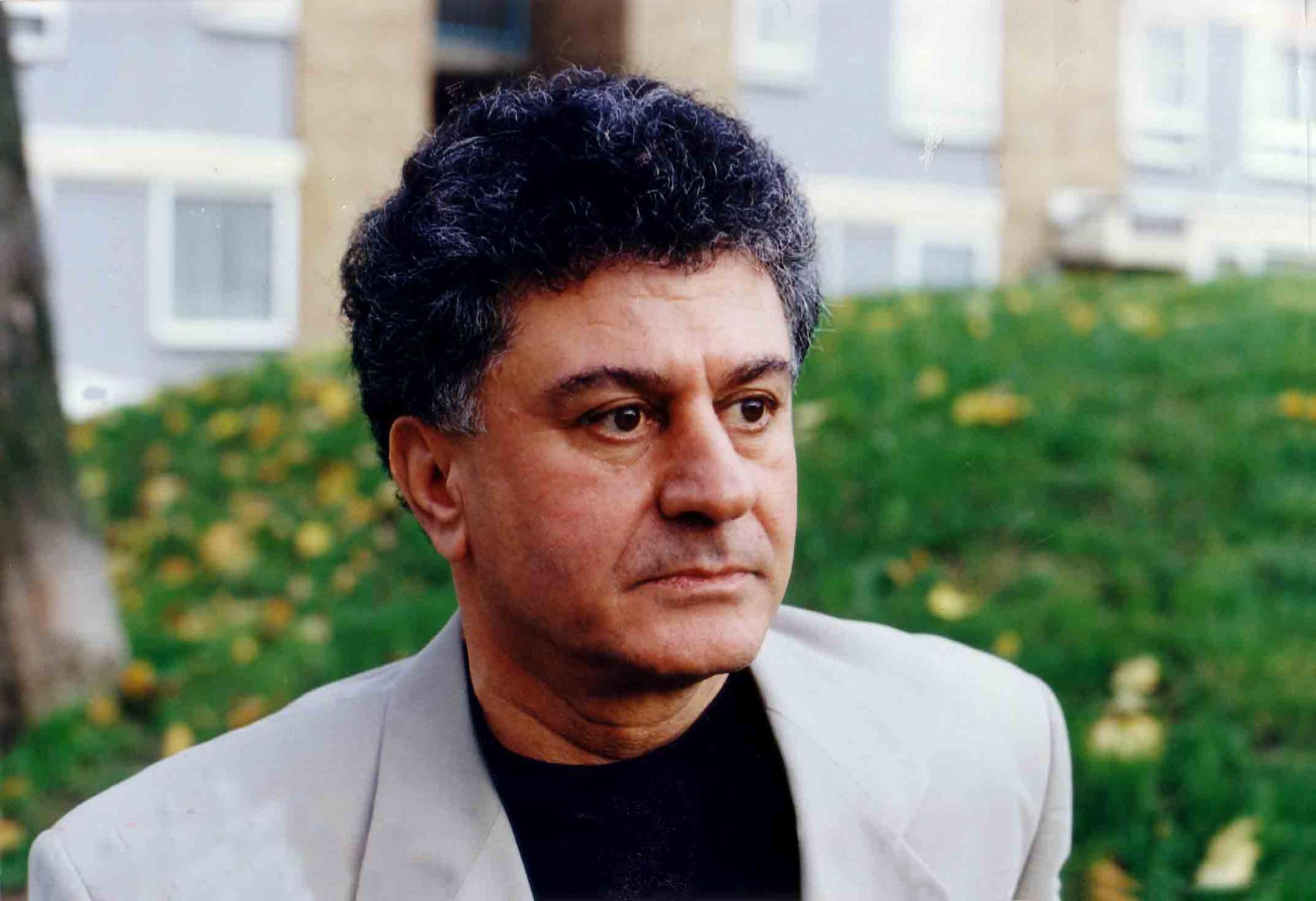 Mazhar Khaleghi (Mazhari Xalqi) - Kurdish Singer